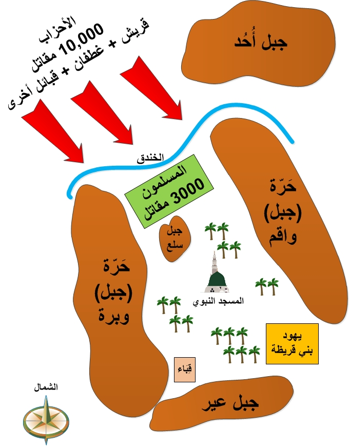 Al-Ahzab Battle Map